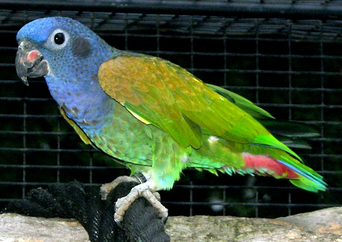 Blue-headed Parrot also known as the Blue-headed Pionus in a cage.